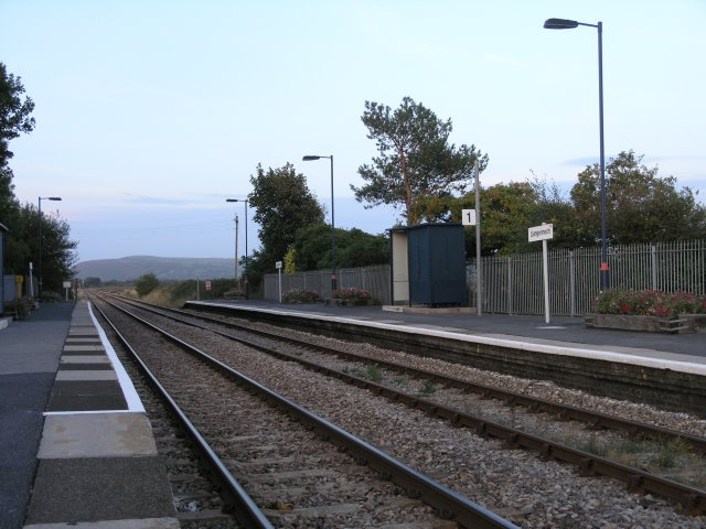 Llangennech Station